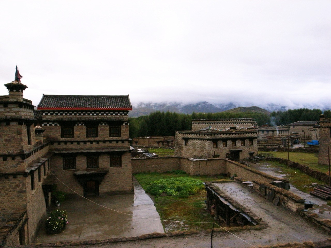 Daocheng inn in the morning, Garzê Tibetan Autonomous Prefecture, Sichuan, China